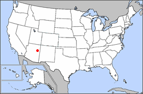 Locator map of Petrified Forest National Park, Arizona.